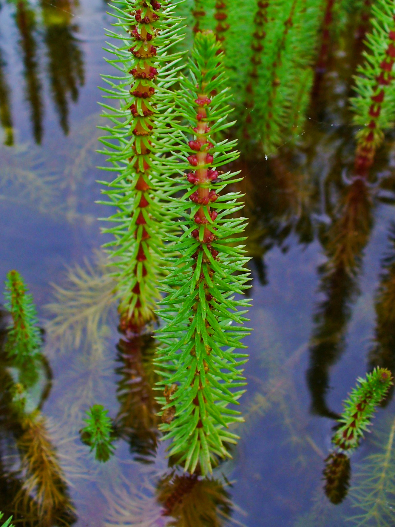 Hippuris vulgaris, Plantaginaceae, Common Mare's Tail, habitus; Botanical Garden KIT, Karlsruhe, Germany.